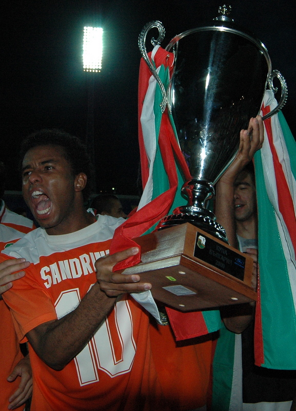 Sandrinho Litex Lovech players